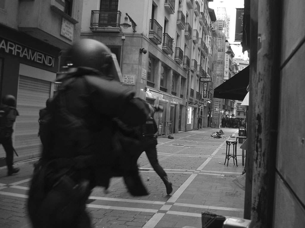 Rally "against repression" in Pamplona and riots with the police before its completion